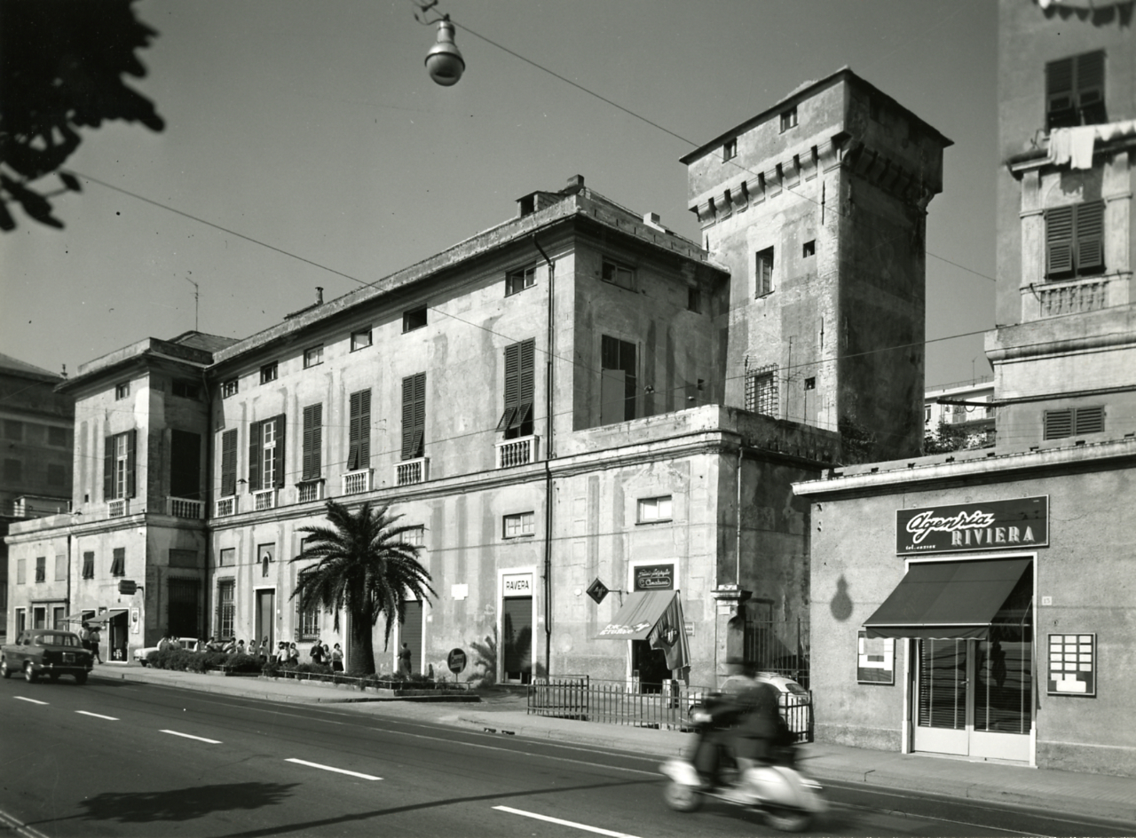 Palace of the Marquises Della Chiesa. Pope Benedictus XV (Giacomo della Chiesa) is probably born here in november 1854. Servizio fotografico : Genova, 1963 / Paolo Monti. - Stampe: 2 : Positivo b/n, gelatina bromuro d'argento/ carta, 24x30. - ((Sul coperchio della scatola iscrizione didascalica manoscritta a pennarello nero: "Genova/ Bologna". - Il negativo identificato con il numero 46397 è stato realizzato per Zodiac. - Occasione: Documentazione per la pubblicazione: Italia Nostra (a cura di), "Le ville genovesi", catalogo della mostra, Genova 1962, Genova, Comune di Genova, 1967. - Fonte: Monografia di Italia Nostra (a cura di): Le ville genovesi, catalogo della mostra, Genova 1962, Genova, Comune di Genova (1967). - Fonte: Lettera di Paolo Monti: I. Carteggi/ Genova - Enrico (1963-1966), presso Archivio Paolo Monti. Camicia con documenti dattiloscritti e manoscritti vari relativi al lavoro eseguito per Italia Nostra: preventivi, lettere, inventari. - Fonte: Rubrica di Paolo Monti: Archivio fino 1-4-1961/ 31-3-1963 (1961-1963), presso Archivio Paolo Monti. - Fonte: Agenda di Paolo Monti: R 1 - Monti/ 1 aprile 1963 - 6 giugno 1964/ 6000-8193 (1963-1964), presso Archivio Paolo Monti